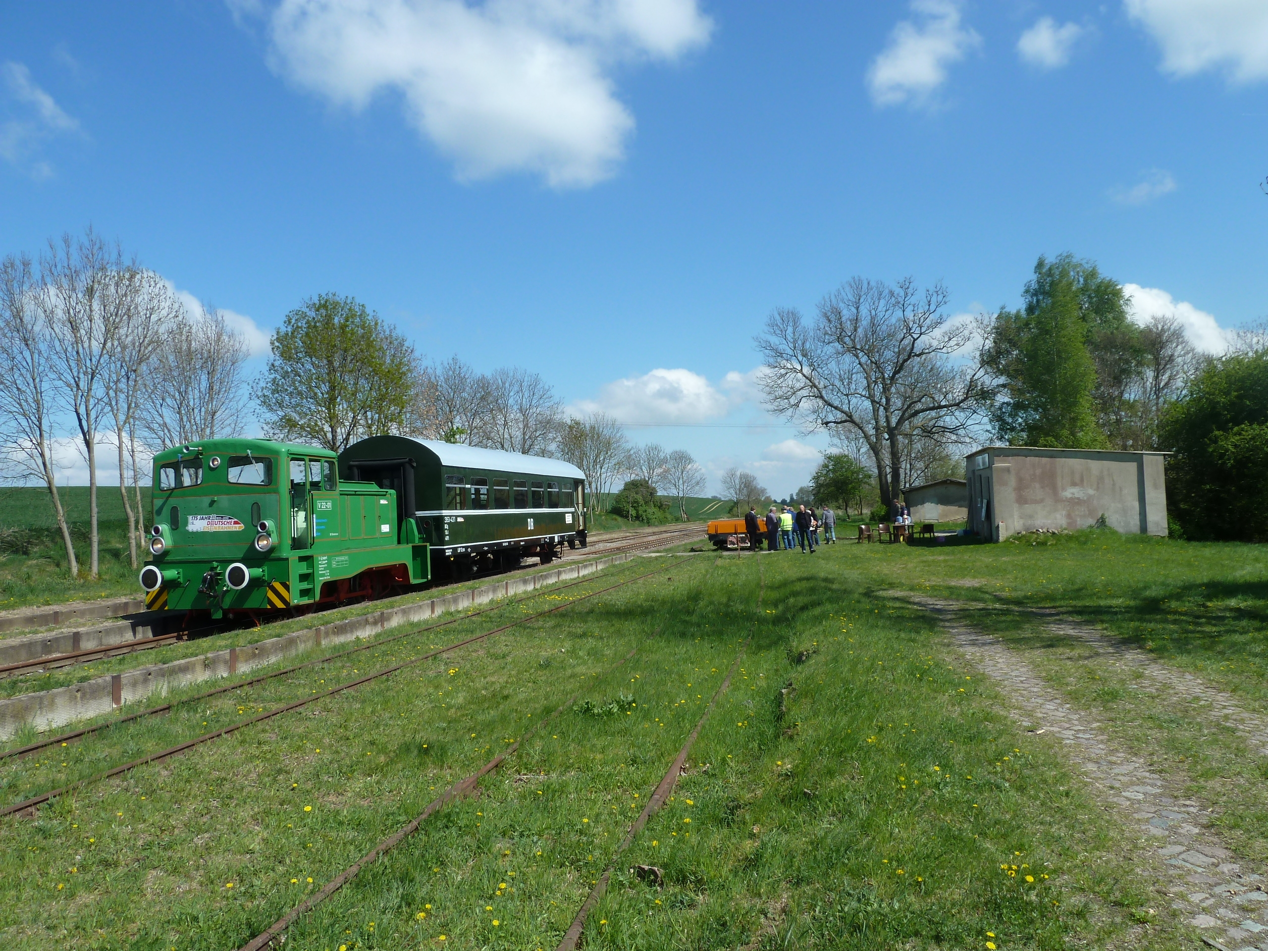 Damme railway station